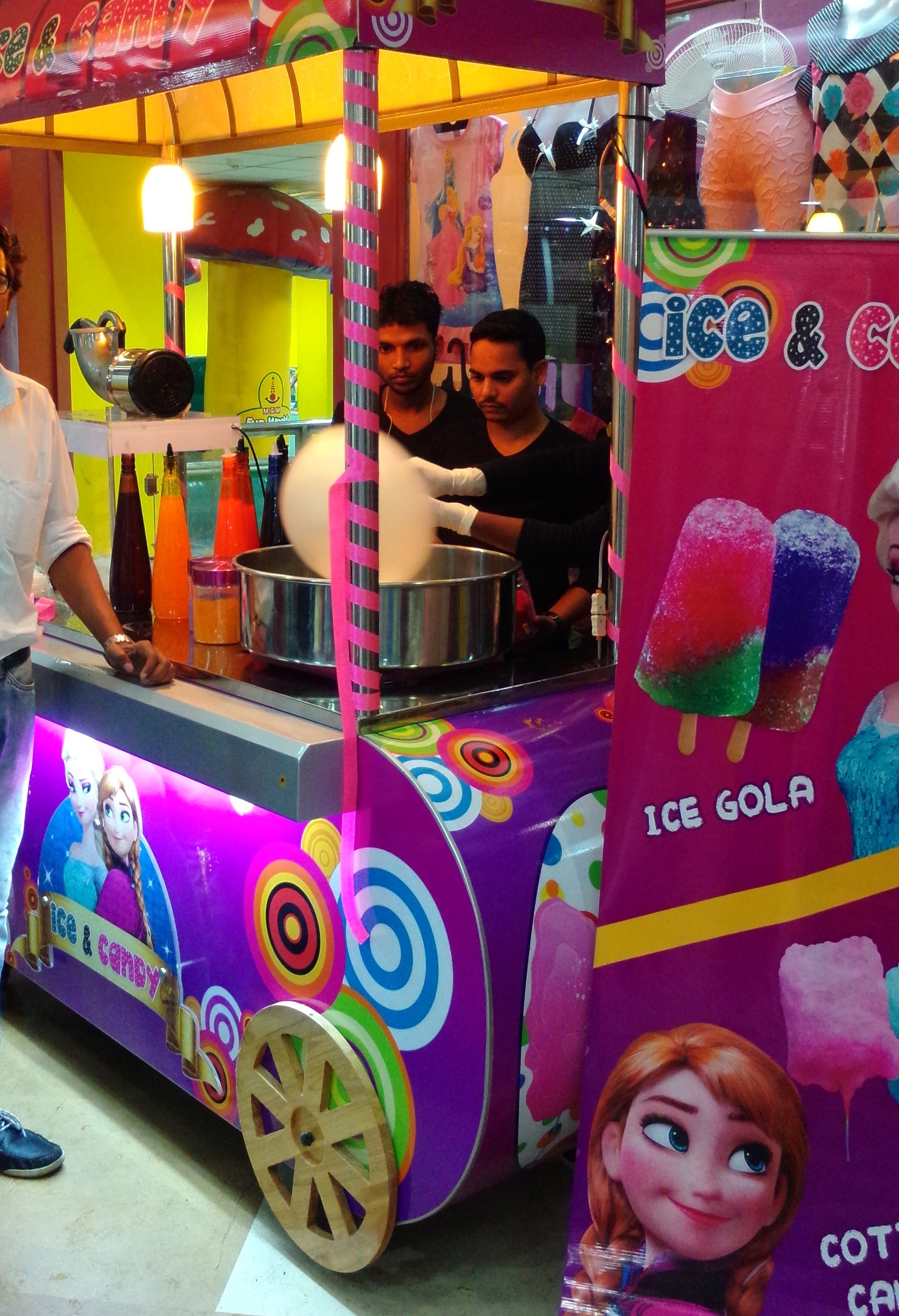 founder and ceo of lucky foods group Mr.vallakati laxman at his 1st kiosk model outlet in abhirami mega mall Chennai India.